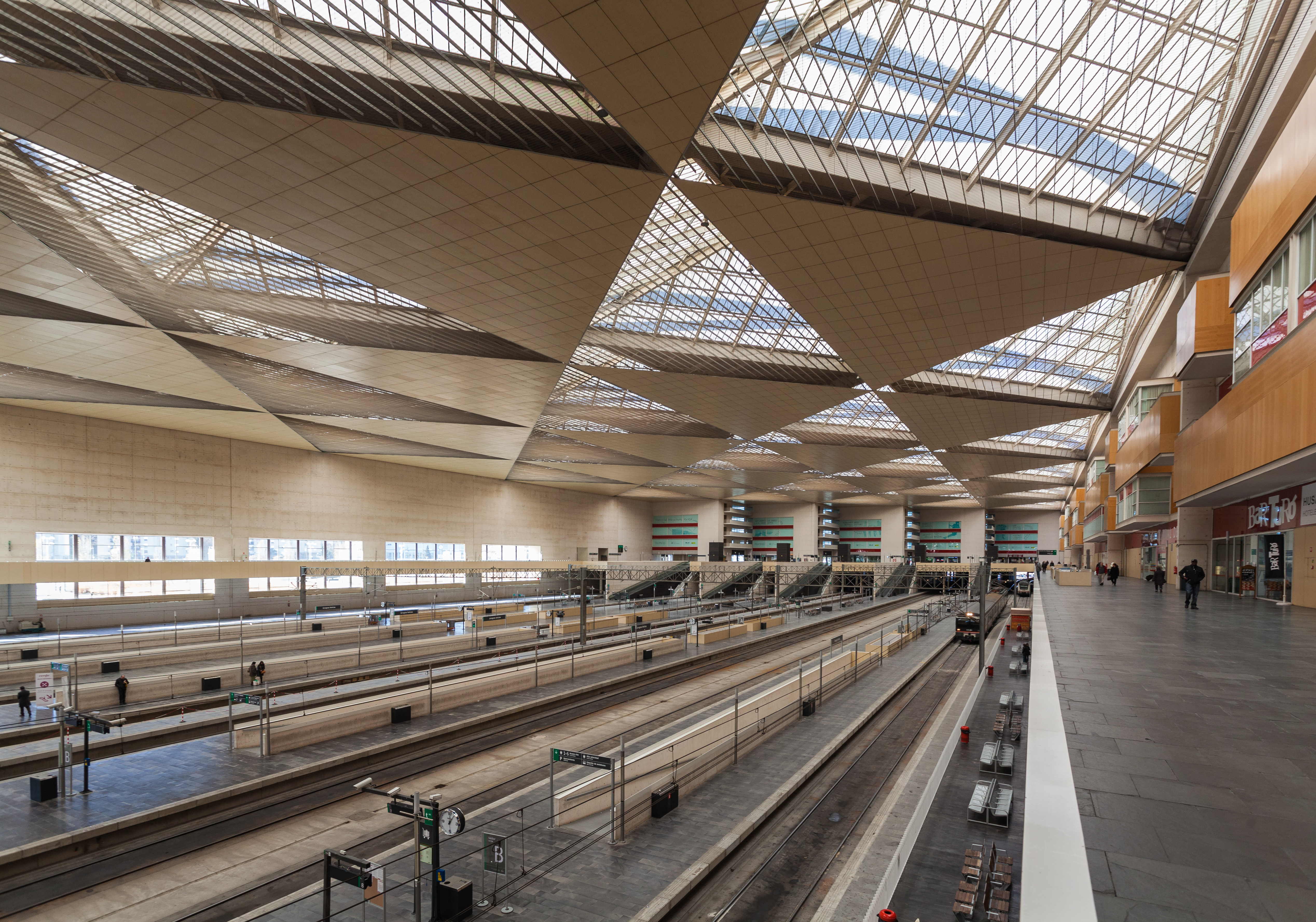 Railway station of Delicias, Zaragoza, Spain